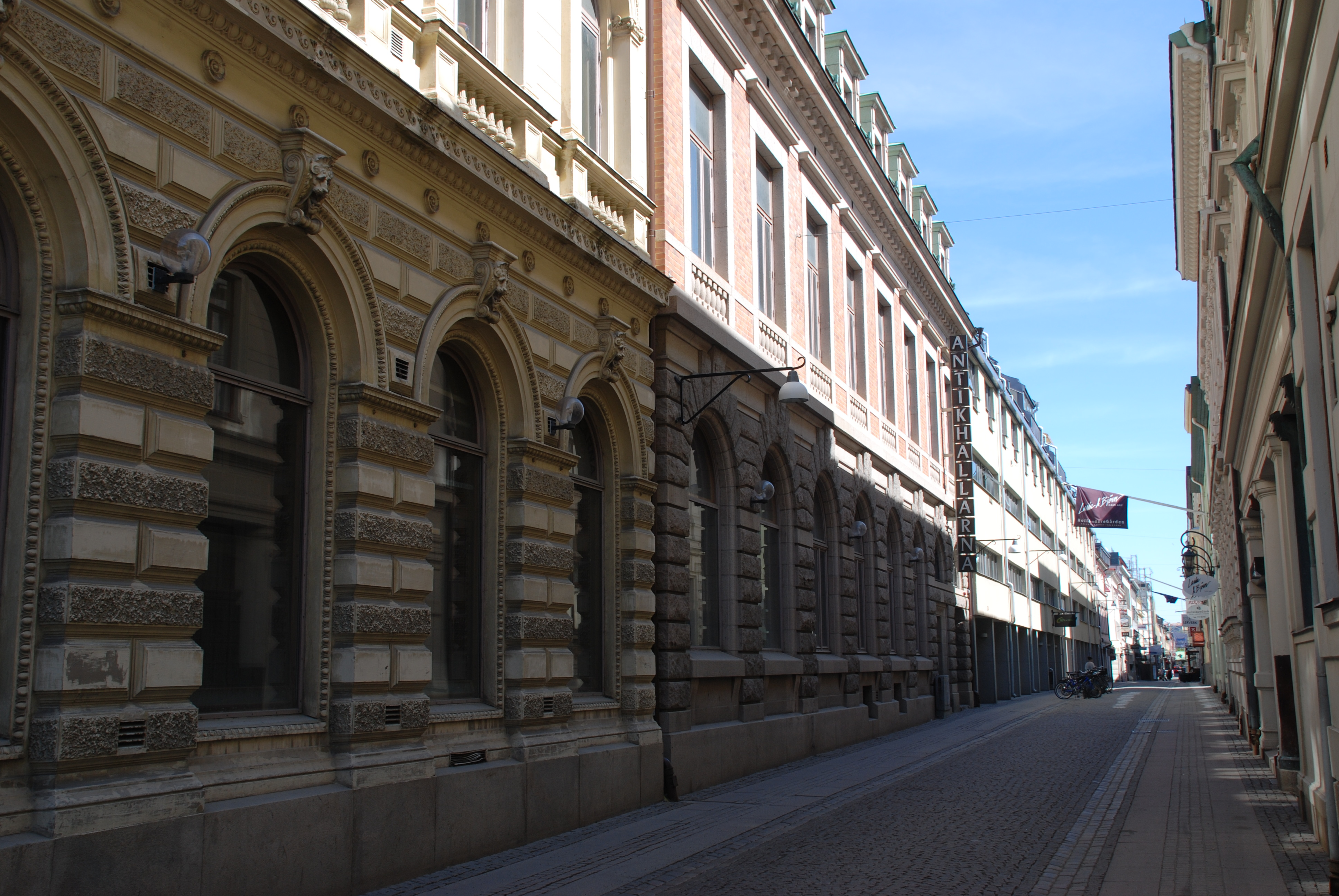 Drottninggatan and Antikhallarna seen from Västra Hamngatan in Göteborg, Sweden.